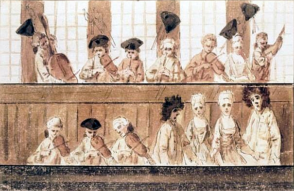 The first café-chantant established on the Champs-Élysées in Paris, with comical singers and musicians, in 1789. Ink and watercolour.